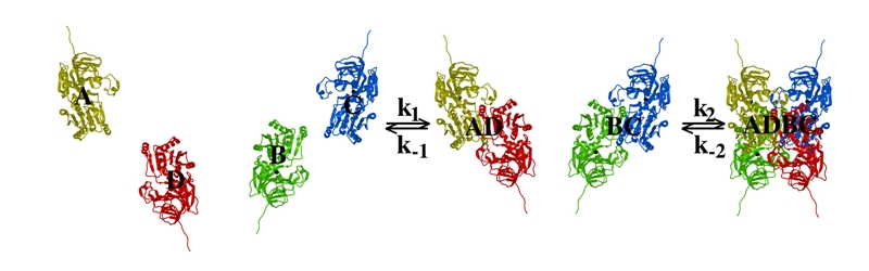 Sorbitol dehydrogenase in three different quaternary structures.